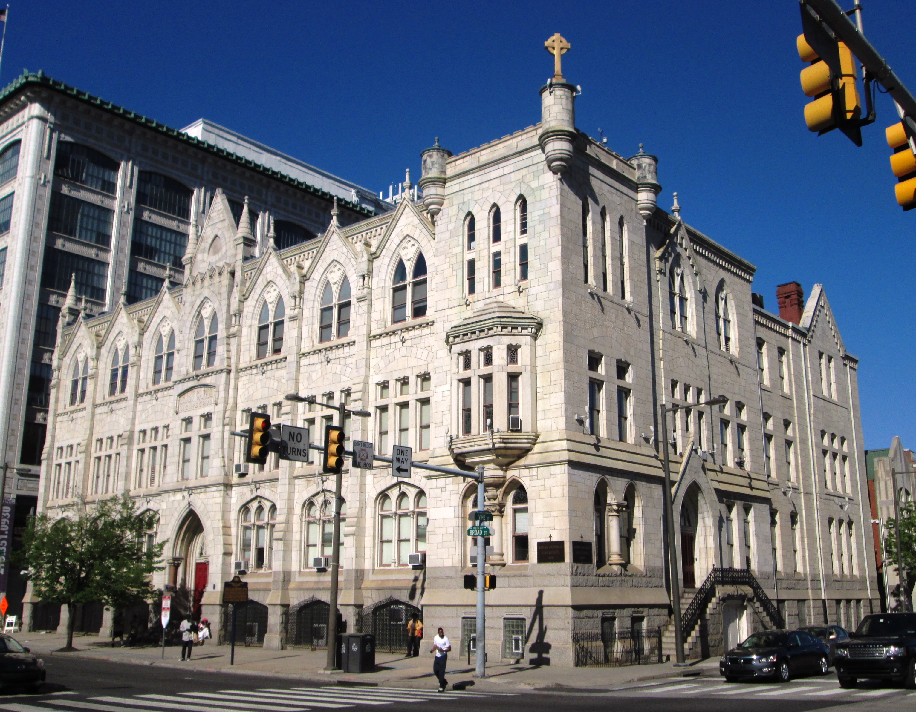 Roman Catholic High School at 301 N. Broad Street on the corner of Vine Street in the Callowhill neighborhood of Philadelphia was founded in 1890 as the Roman Catholic High School for Boys. Thomas E. Cahill, an entrepreneur and philanthropist who came from a poor family of immigrants, left the greatest part of his estate to provide for the founding of the school, which was the first free Catholic high school in the United States. The building, which is faced with marble and stands on a granite foundation, originally has a 150 foot marble tower, which burned down in 1959. (Source: Historical marker on site and school website)